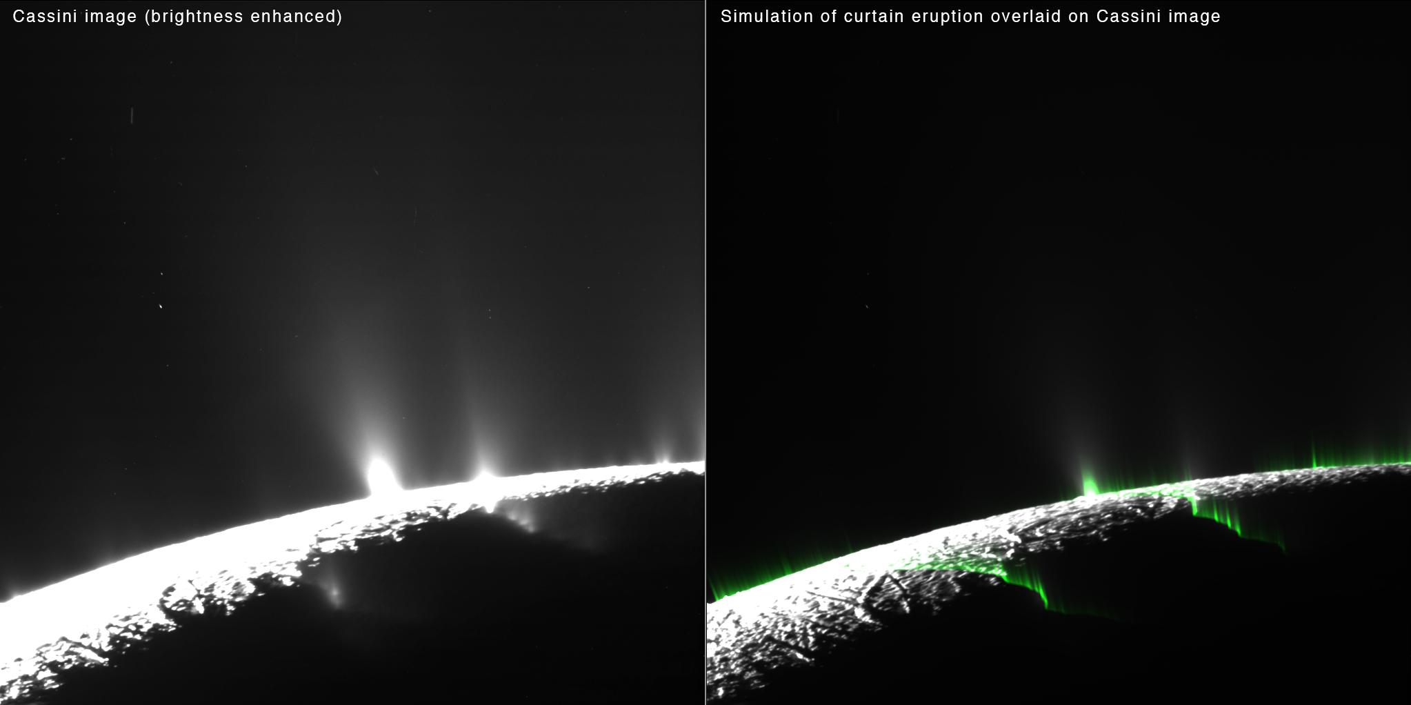 PIA19061: Enceladus Curtains: Comparing Data and Simulation Phantom jets in simulated images produced by the scientists line up nicely with some of the features in real images from NASA's Cassini spacecraft that appear to be discrete columns of spray. Researchers modeled eruptions on Saturn's moon Enceladus as uniform curtains along prominent fractures that stretch across the icy moon's south pole. They found that brightness enhancements appear as optical illusions in places where the viewer is looking through a "fold" in the curtain. The folds exist because the fractures in Enceladus' surface are more wavy than perfectly straight. The researchers think this optical illusion is responsible for most -- but not all -- of what appear to be individual jets. Some discrete jets are still required to explain Cassini's observations. Phantom jets in simulated images produced by the scientists line up nicely with some of the features in real Cassini images that appear to be discrete columns of spray. The correspondence between simulation and spacecraft data suggests that much of the discrete-jet structure is an illusion. Curtain eruptions occur on Earth where molten rock, or magma, gushes out of a deep fracture. These eruptions, which often create spectacular curtains of fire, are seen in places like Hawaii, Iceland and the Galapagos Islands. See PIA19060 for a related image and video animation. The Cassini-Huygens mission is a cooperative project of NASA, the European Space Agency and the Italian Space Agency. NASA's Jet Propulsion Laboratory, a division of the California Institute of Technology in Pasadena, manages the mission for NASA's Science Mission Directorate, Washington. The Cassini orbiter and its two onboard cameras were designed, developed and assembled at JPL. The imaging operations center is based at the Space Science Institute in Boulder, Colo. For more information about the Cassini-Huygens mission visit and The Cassini imaging team homepage is at